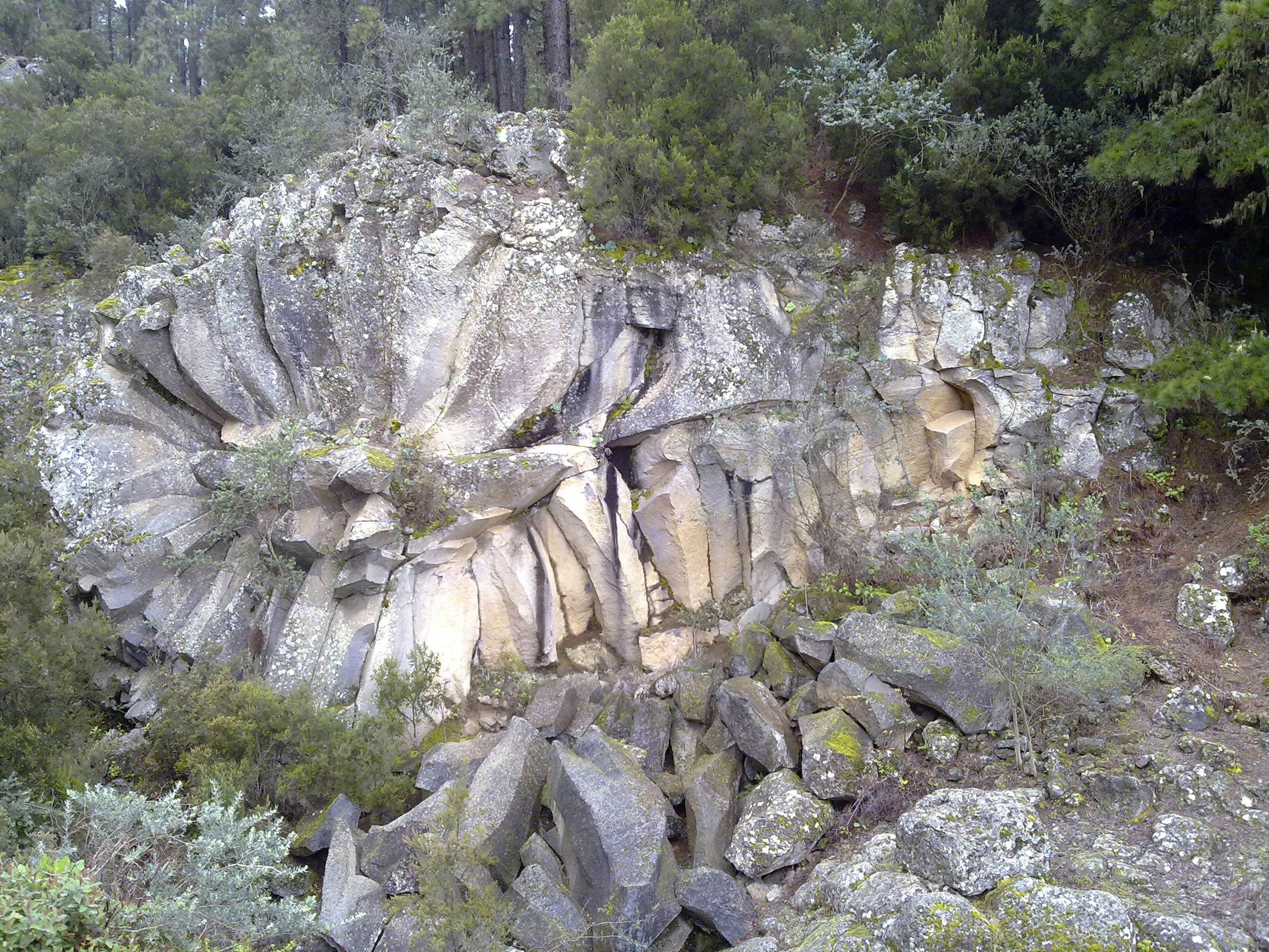 La Piedra de la Rosa at Parque nacional del Teide. It is result of prosesses which were initiated when the lava river got cold, which formed this singular geological structure. When lava is solidifying, it's mass contracts and cracks; that is when the rocks are exposed to the wind and weather, they sometimes tent to crack adopting some characteristic shapes. In some cases, you can find balls produced by spherical flake off; in other cases, when the rocks are broken into hexagonal prisms, the "organs" are created. If the cracks are of a radial type, "stone pedals" are easily loosen, producing the formation of roses.